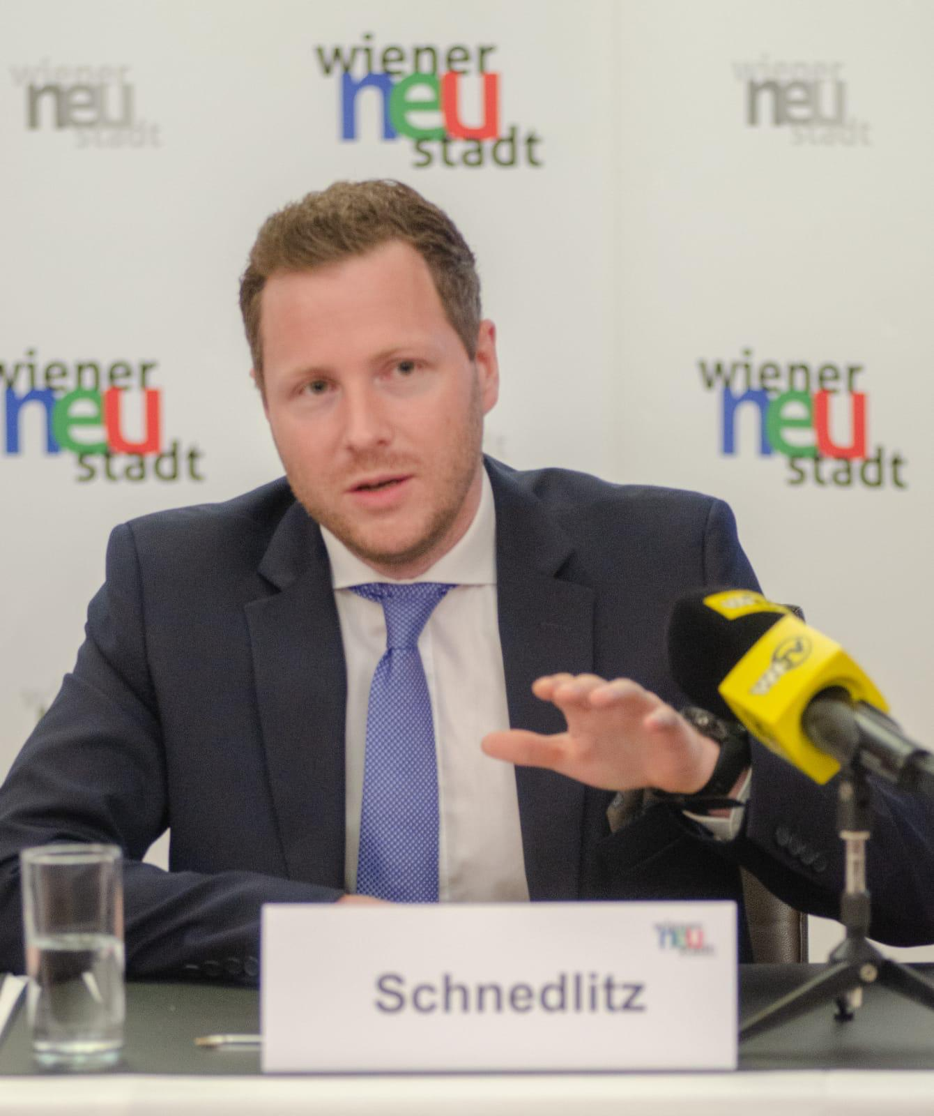 Michael Schnedlitz